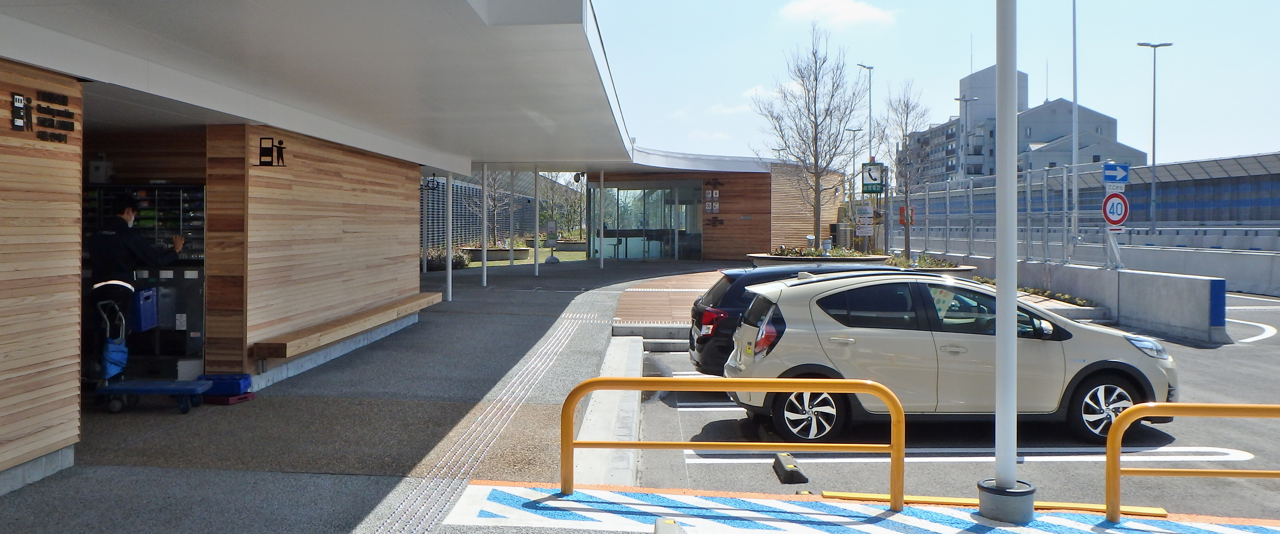 Amagasaki Parking Area, Hyogo prefecture,Japan